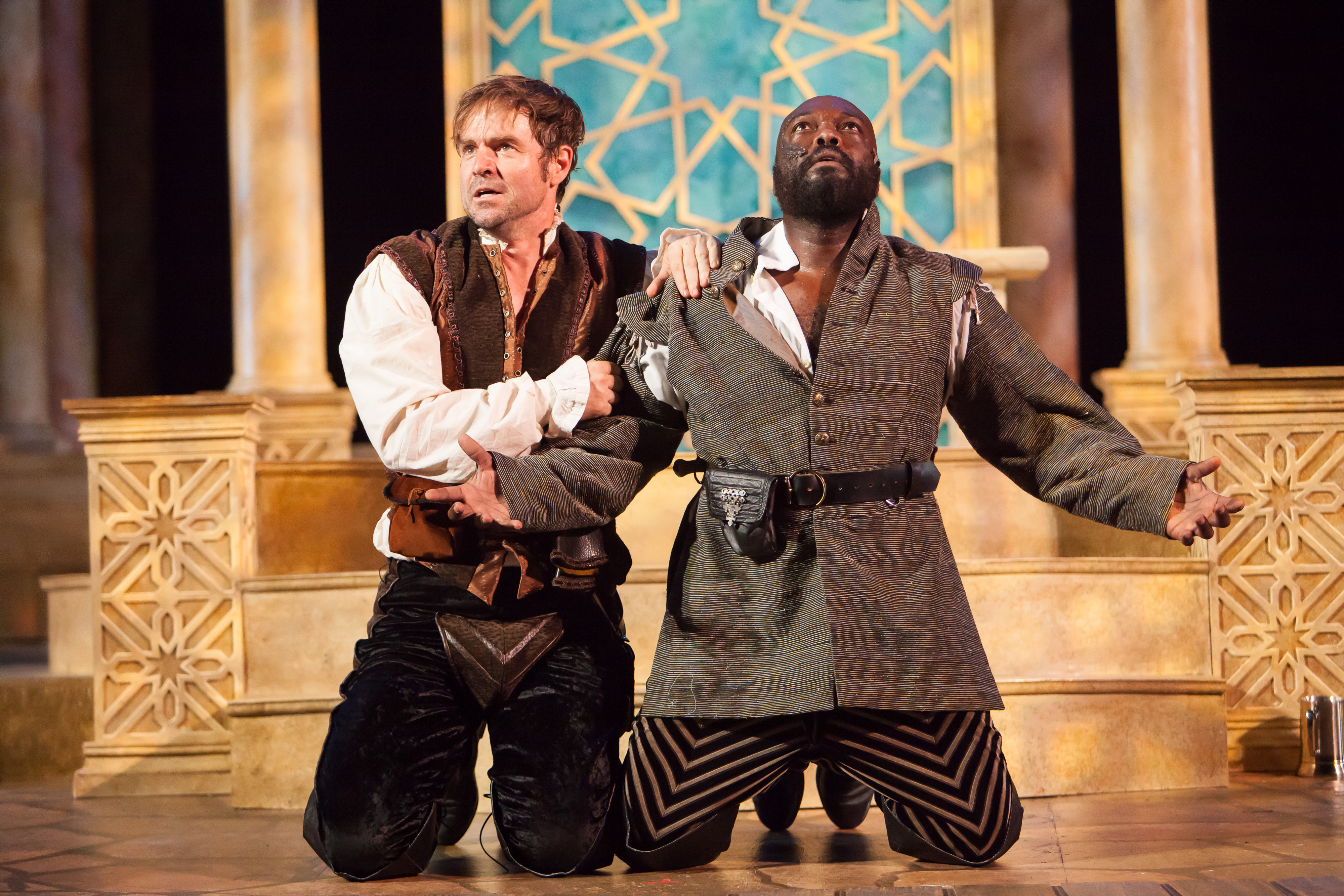 Othello, Colorado Shakespeare Festival, 2015, Mary Rippon Outdoor Theatre